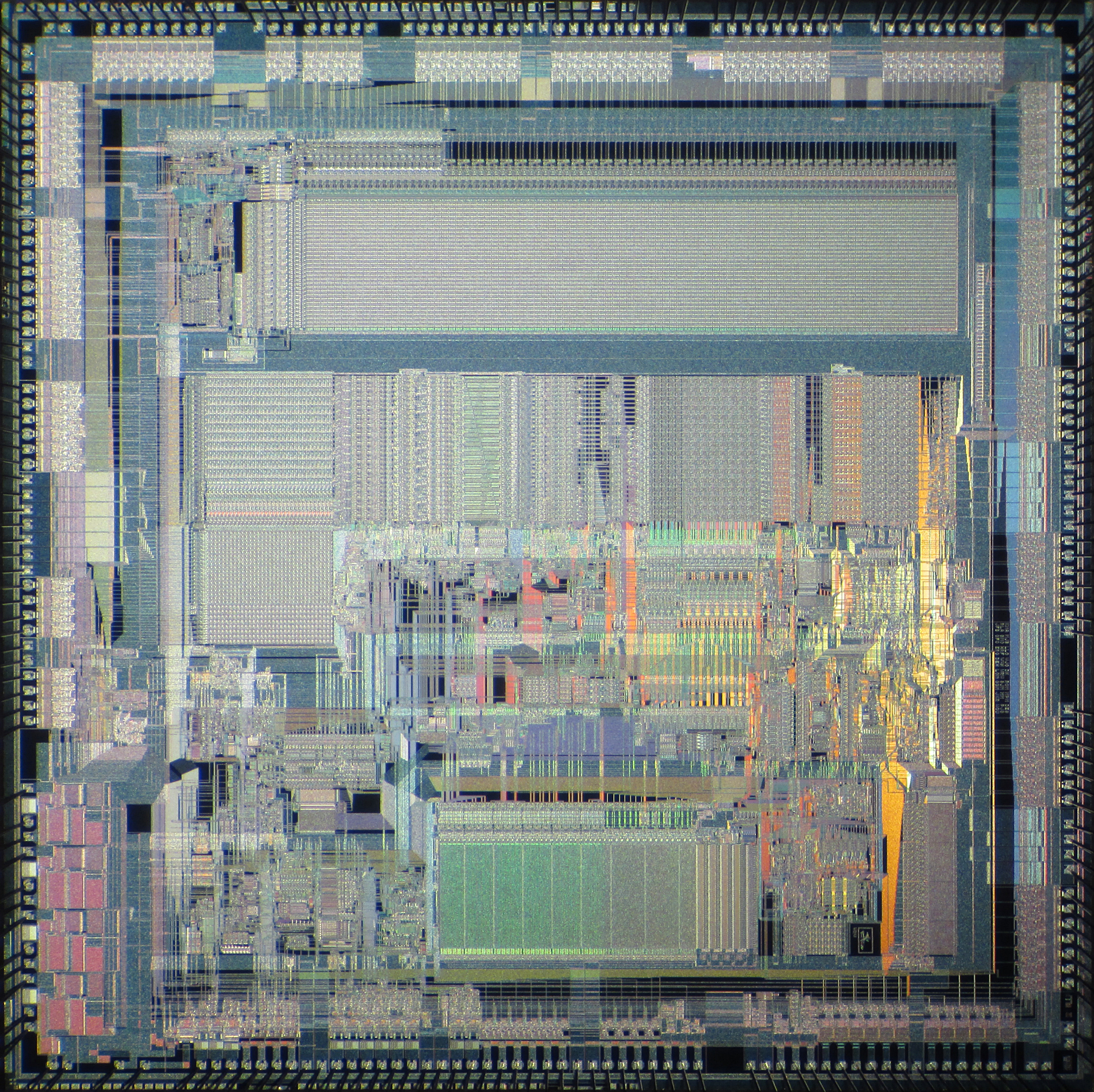 Die shot of DEC Rigel VAX microprocessor with chip number DC520H and part number 21-25087-10.